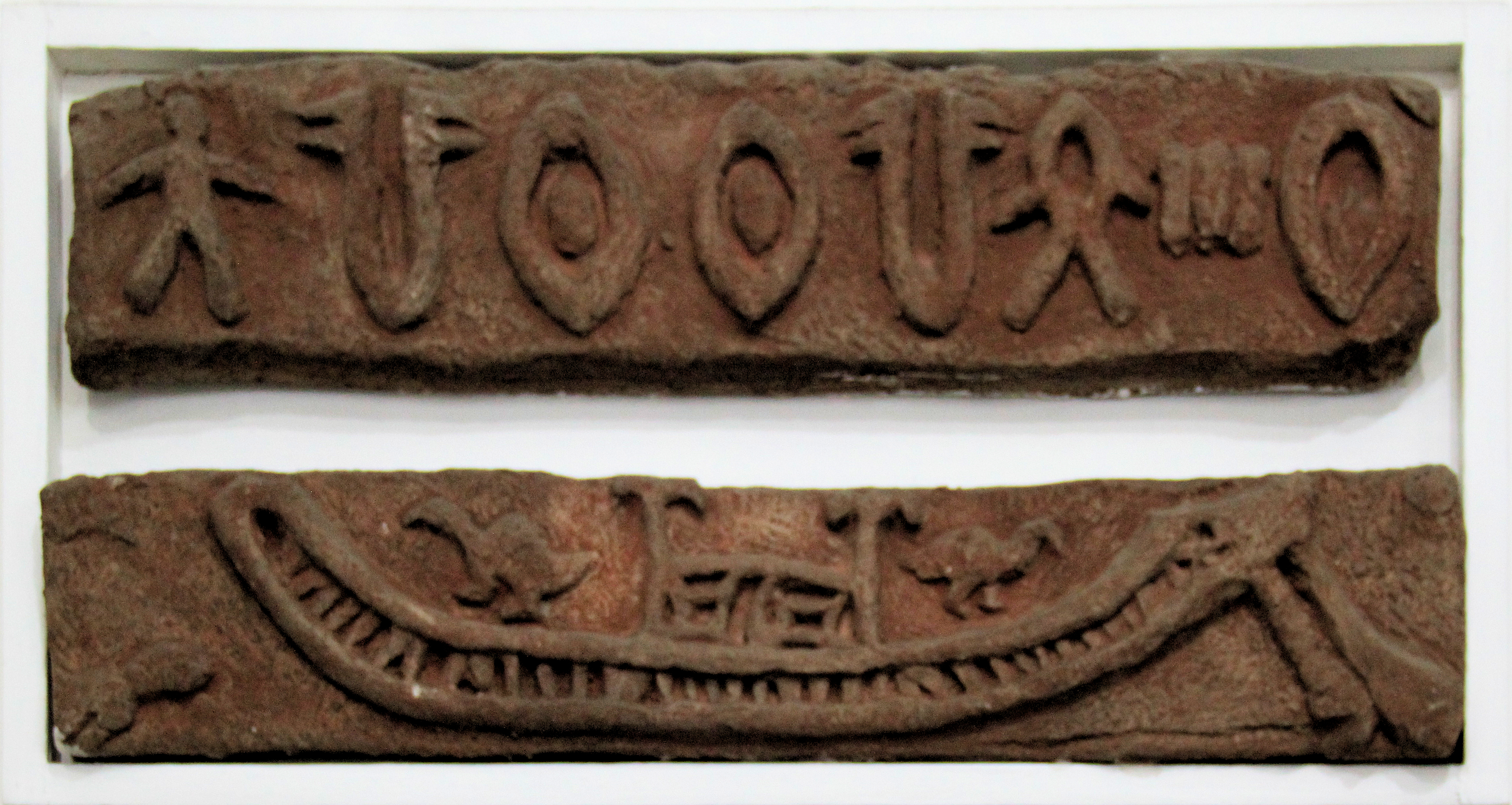 Disha Kaka Boat with Direction Finding Birds, model of Mohenjo-Daro seal, 3000 BCE. Maritime Heritage Gallery, India National Museum, New Delhi. Complete indexed photo collection at .